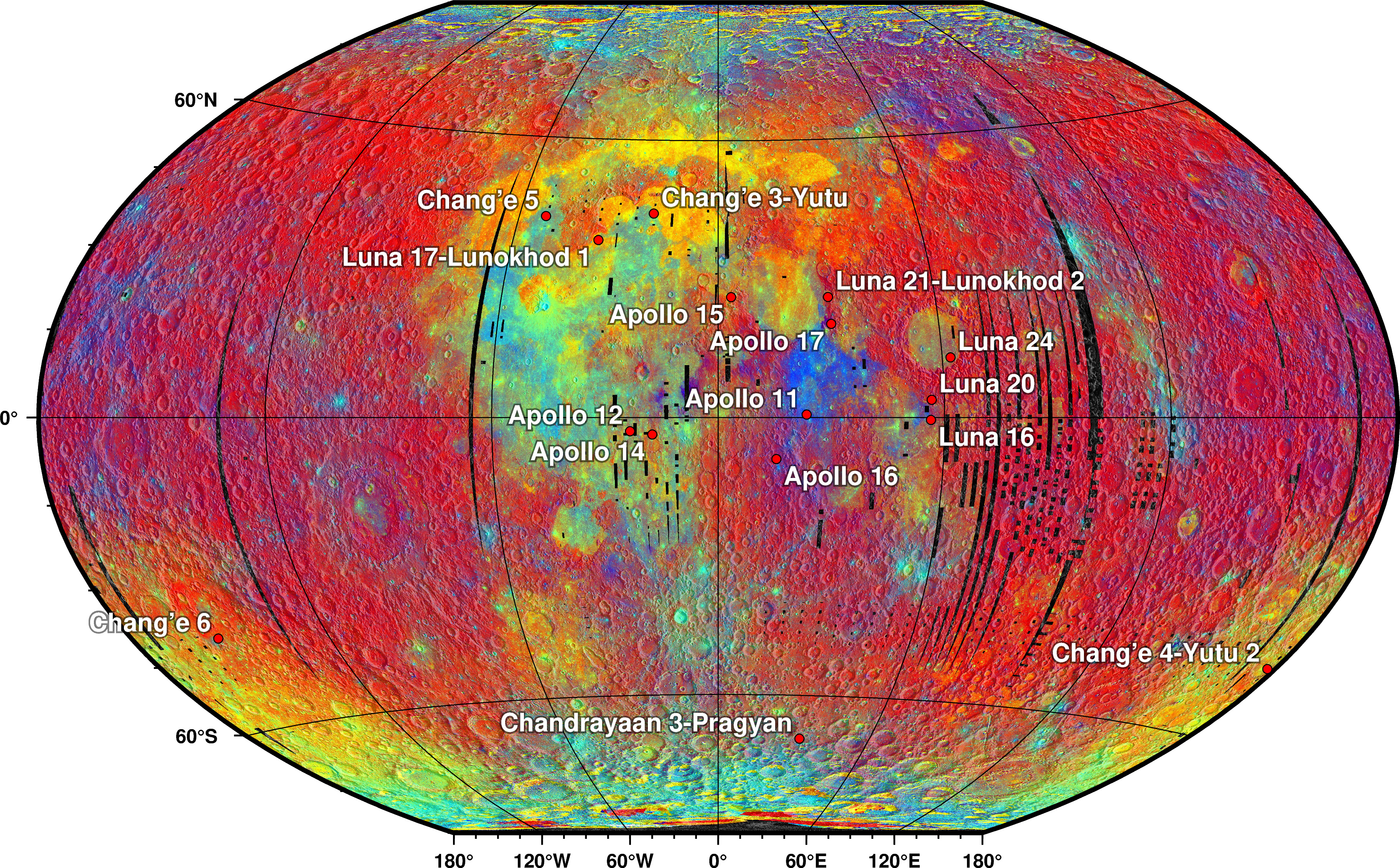 Position of landing sites of all rovers and sample return missions superimposed on Clementine UVVIS 'False Color' or Color-Ratio Image data using a Winkel Tripel projection. red: lunar highlands, mostly old (~4.5 billion years) gabbroic anorthosite rocks (old) blue: lunar highlands, mostly old (~4.5 billion years) gabbroic anorthosite rocks (younger) yellow/orange: lunar maria (~3.9 to ~1 billion years), mostly iron-rich, lower titanium basaltic materials cyan: lunar maria (~3.9 to ~1 billion years), mostly iron-rich, higher titanium basaltic materials